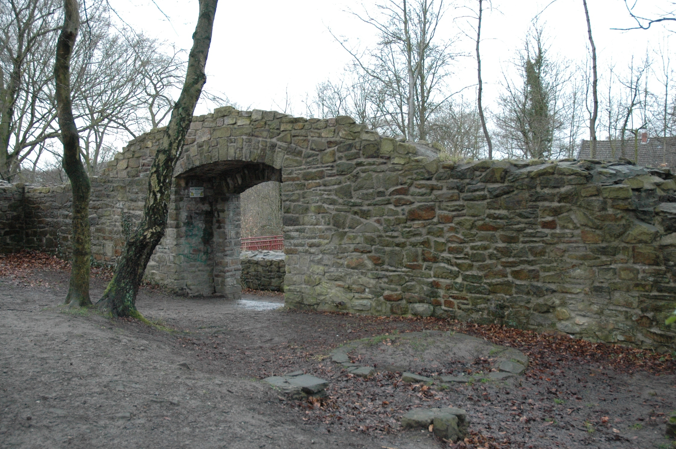 Neue Isenburg in Essen, gate of the ward